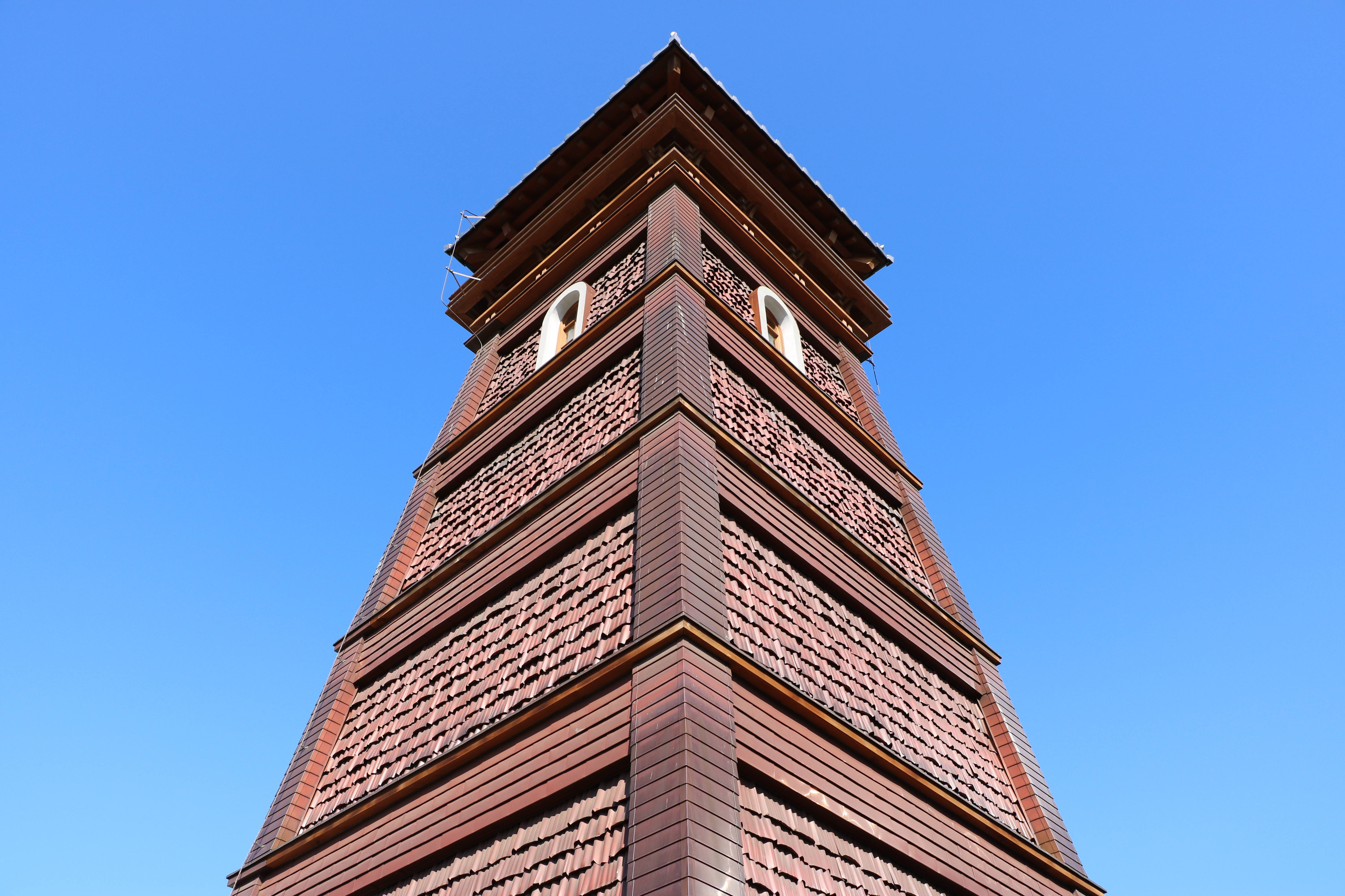 Traditional hour bell tower in Kofu.Nov. 2016